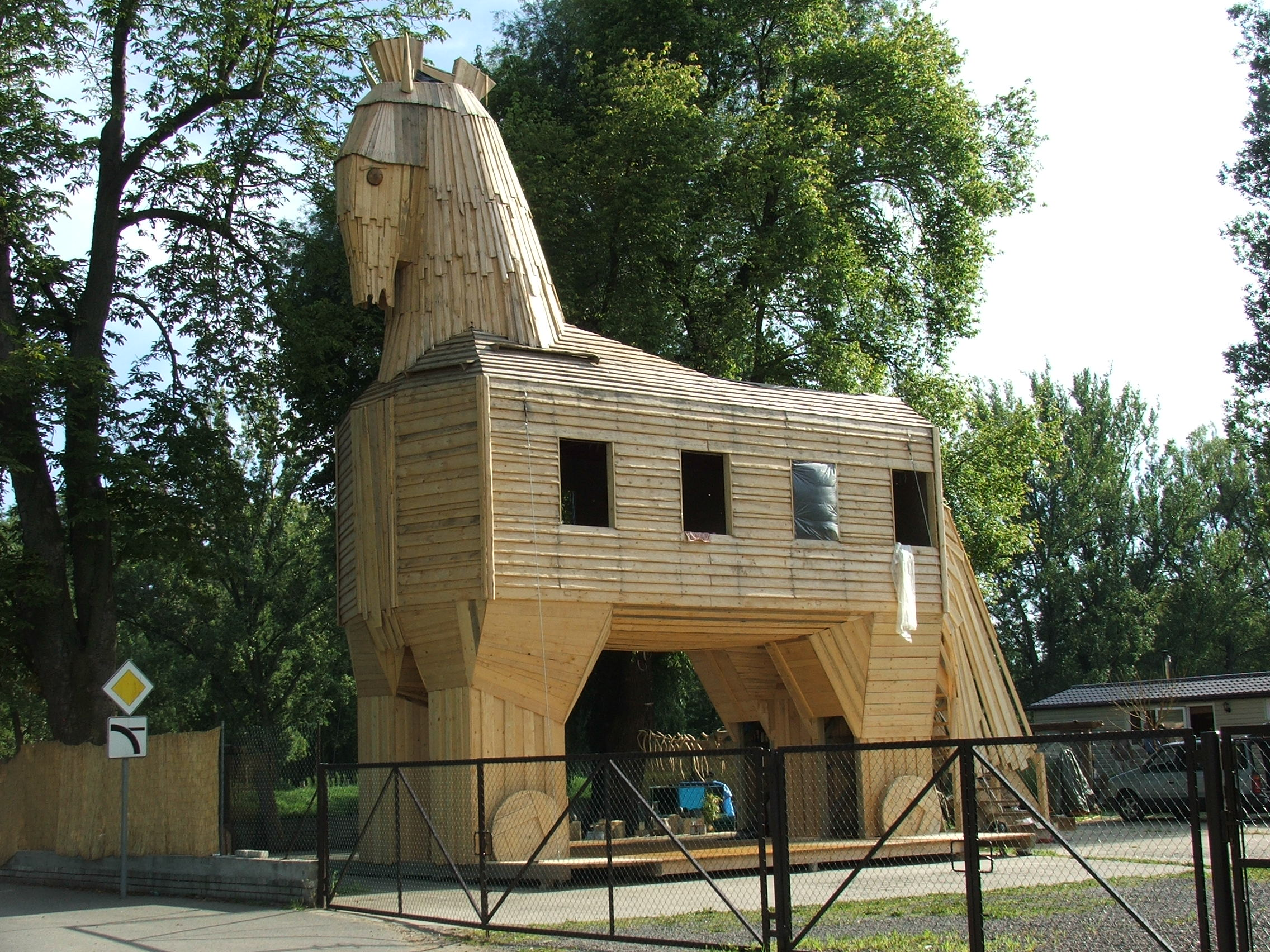 Trojan horse in Troja, Prague, Czechia. It stands at Císařský ostrov (Emperor's island) on Vltava river, in fact in on cadastre of Prague-Bubeneč and Troja (part of Prague) is just across the river.